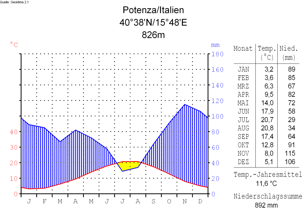 climate chart in the format by Walter and Lieth, metric, °Celsisus and millimeters, made with Geoklima 2.1